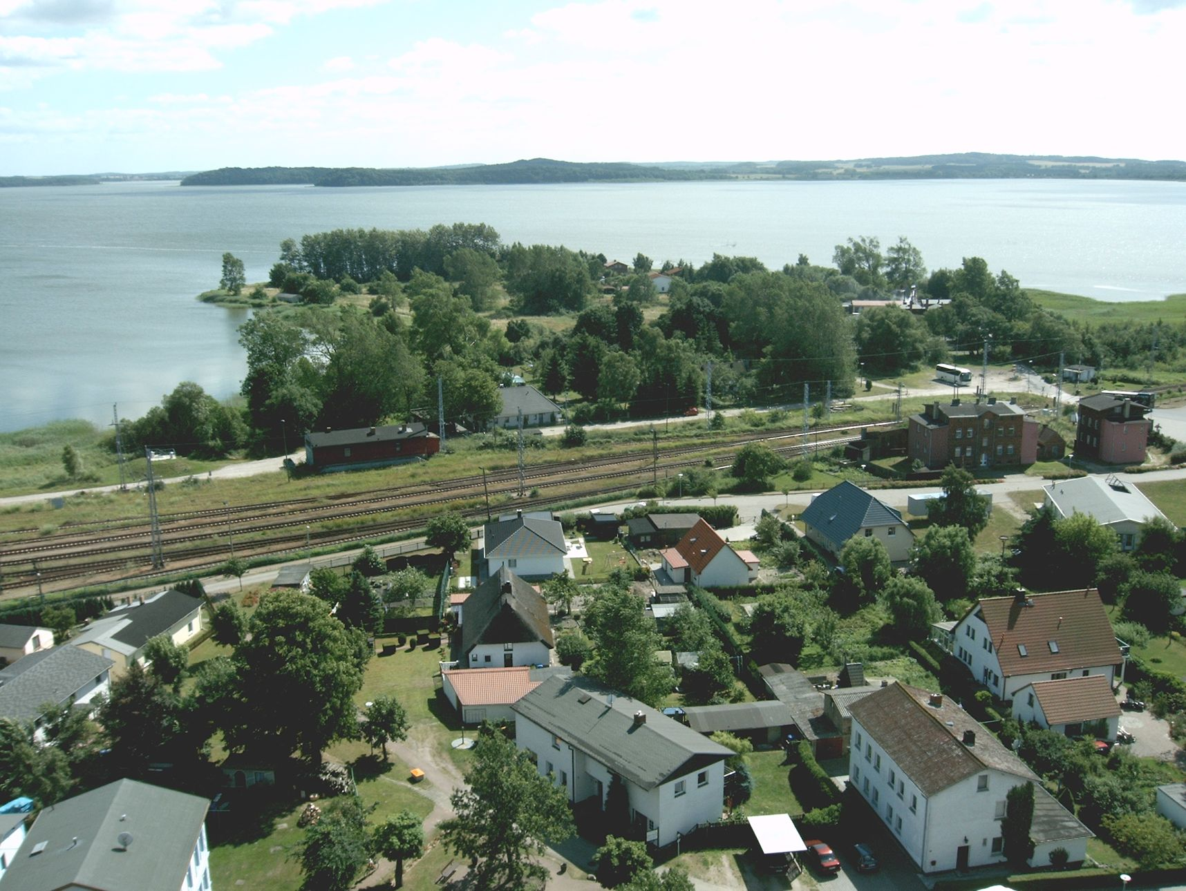 Lietzow on Rügen: View of the Spitzer Ort.